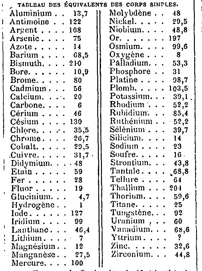 A table of equivalent weights from 1866.